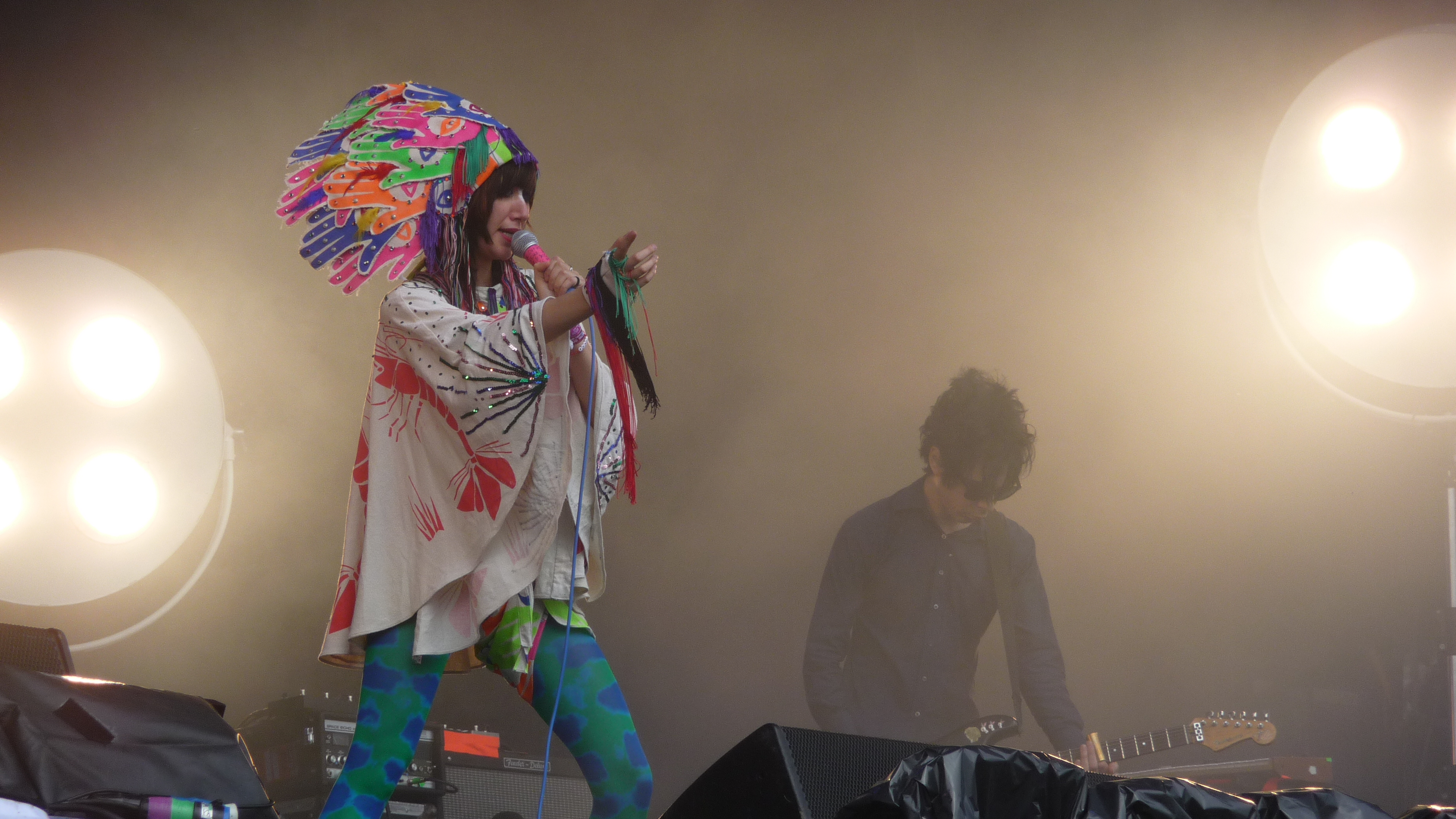 Taken during the Yeah Yeah Yeahs' Sunday set on the Other stage at Glastonbury 2009.